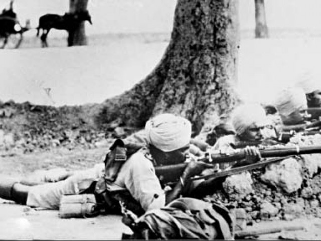 British Indian Army soldiers targetting unarmed protestors in Peshawar, during the Qissa Khwani Bazaar massacre.